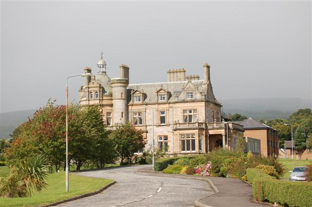 Cairndhu House Cairndhu House was built in 1871 for John Ure Provost of Glasgow. It was requisitioned by the MOD in September 1940 and set up as an outstation of HMS Vernon, the Portsmouth shore base with special responsibility for mines. After the War it was a hotel, it is now a nursing home.